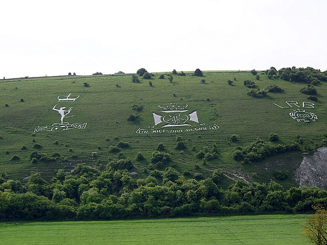 Fovant Badges The badges originate from 1916. From the left:- The Royal Corp of Signals, The Wiltshire Regiment and The London Rifle Brigade.